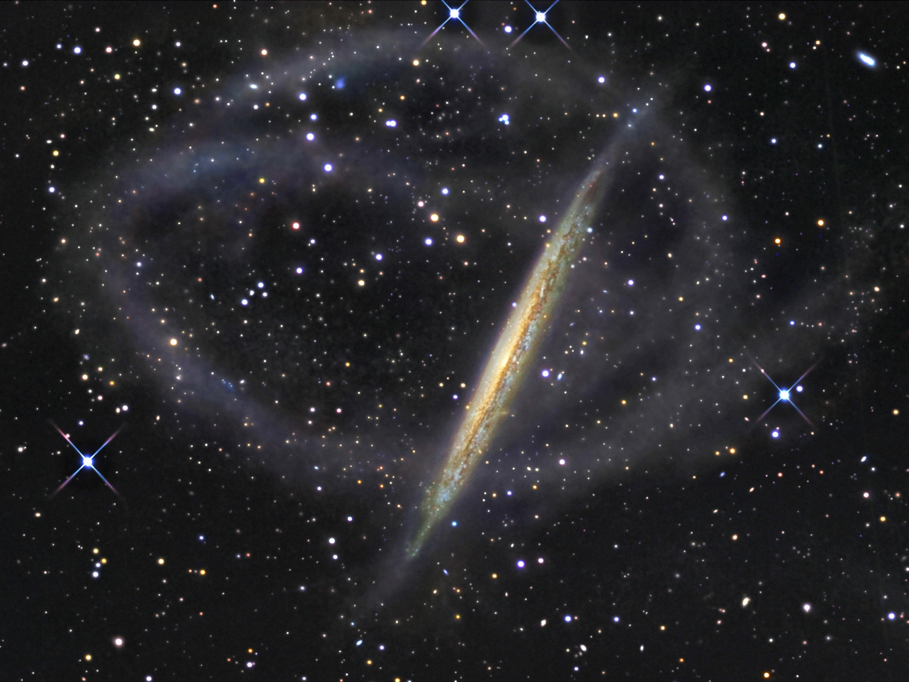 NGC 5907 and the faint stellar stream that loops it.